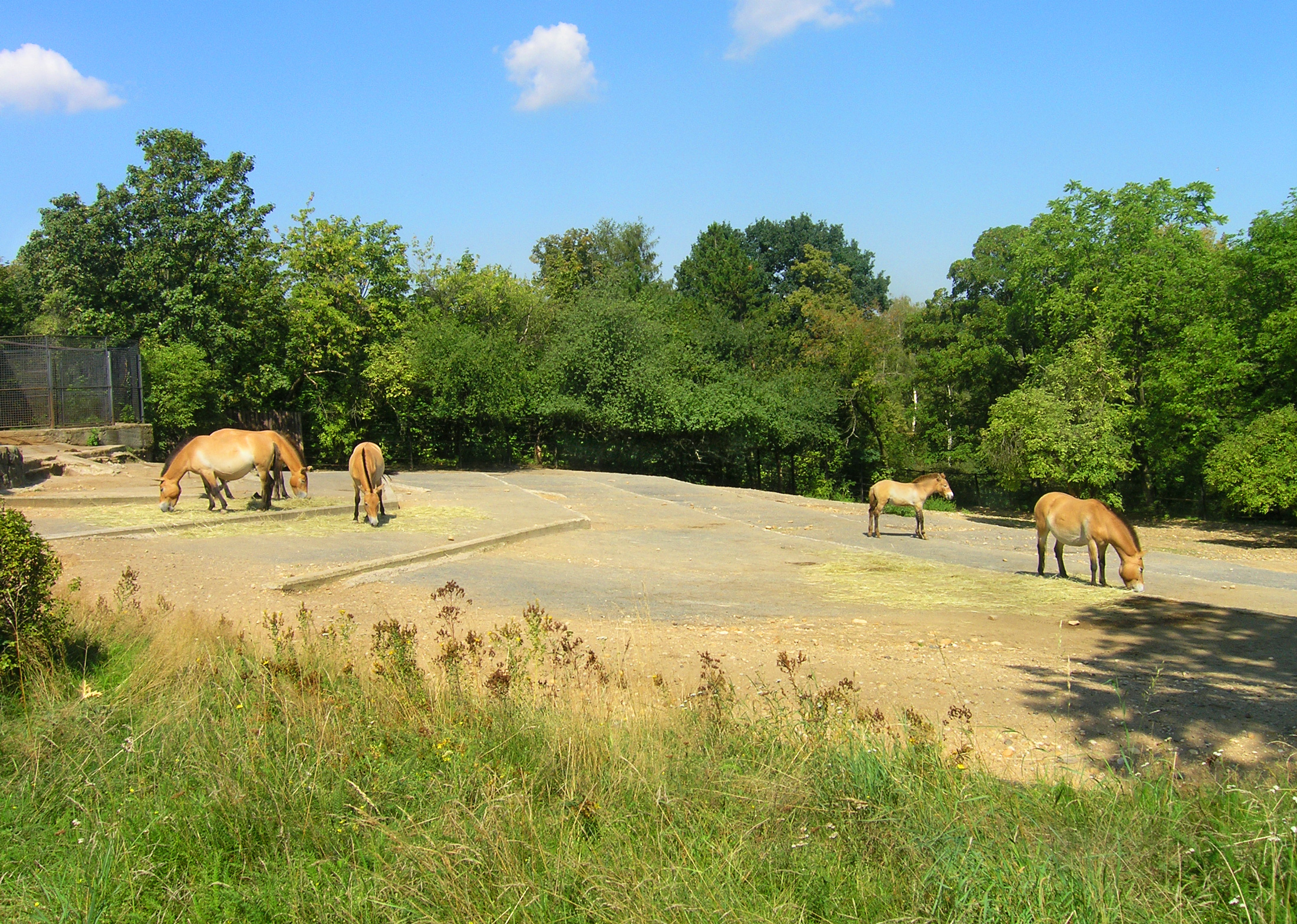 Przewalski's horses exposition in Zoo Prague